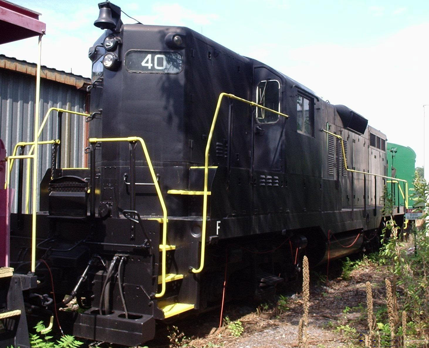 Photo by William J. Grimes, locomotive owned by Jack Showalter under the pseudo name "Virginia Central". Sold to DGVR in September 2006.